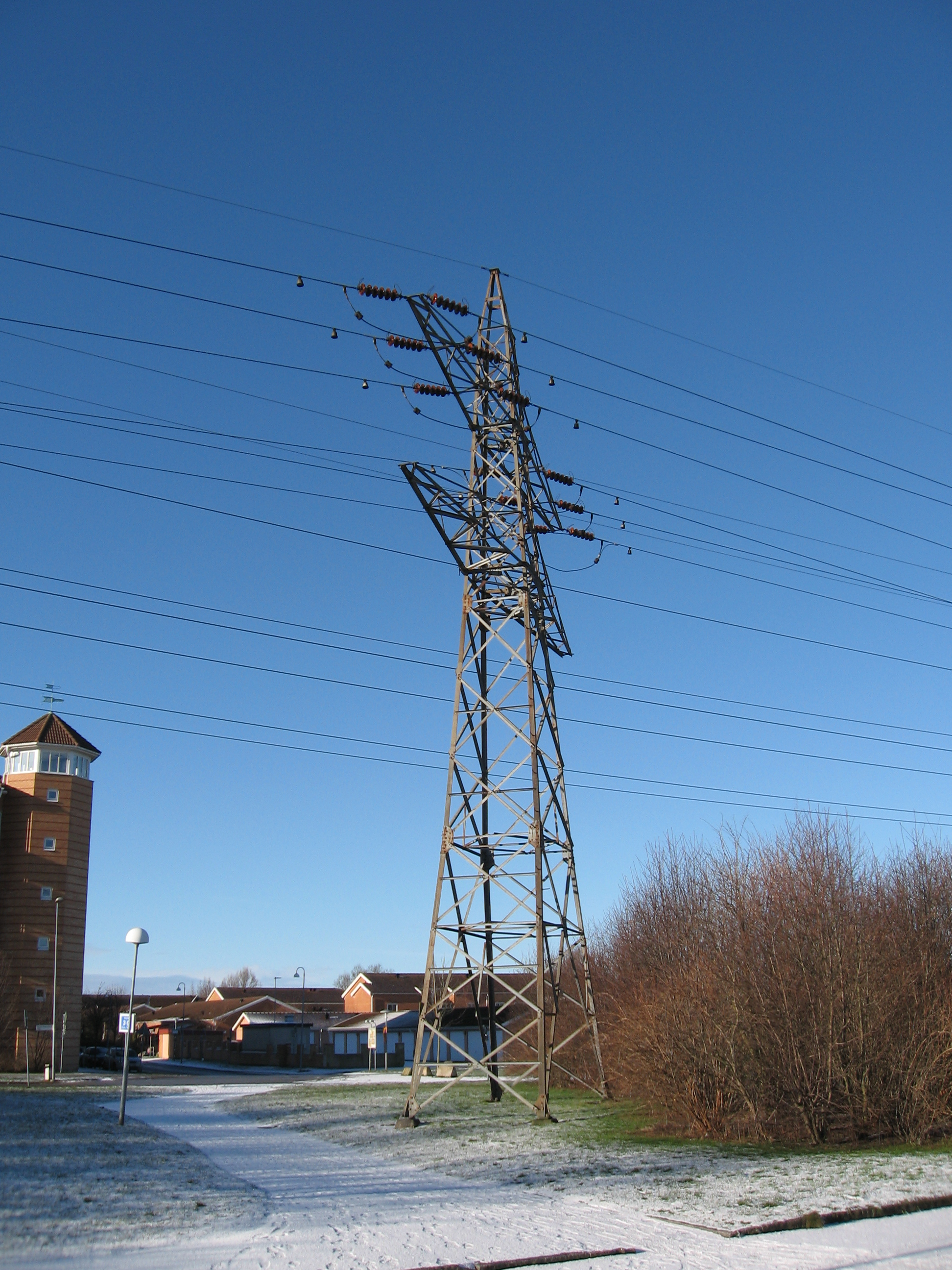 Transmission tower in Värpinge